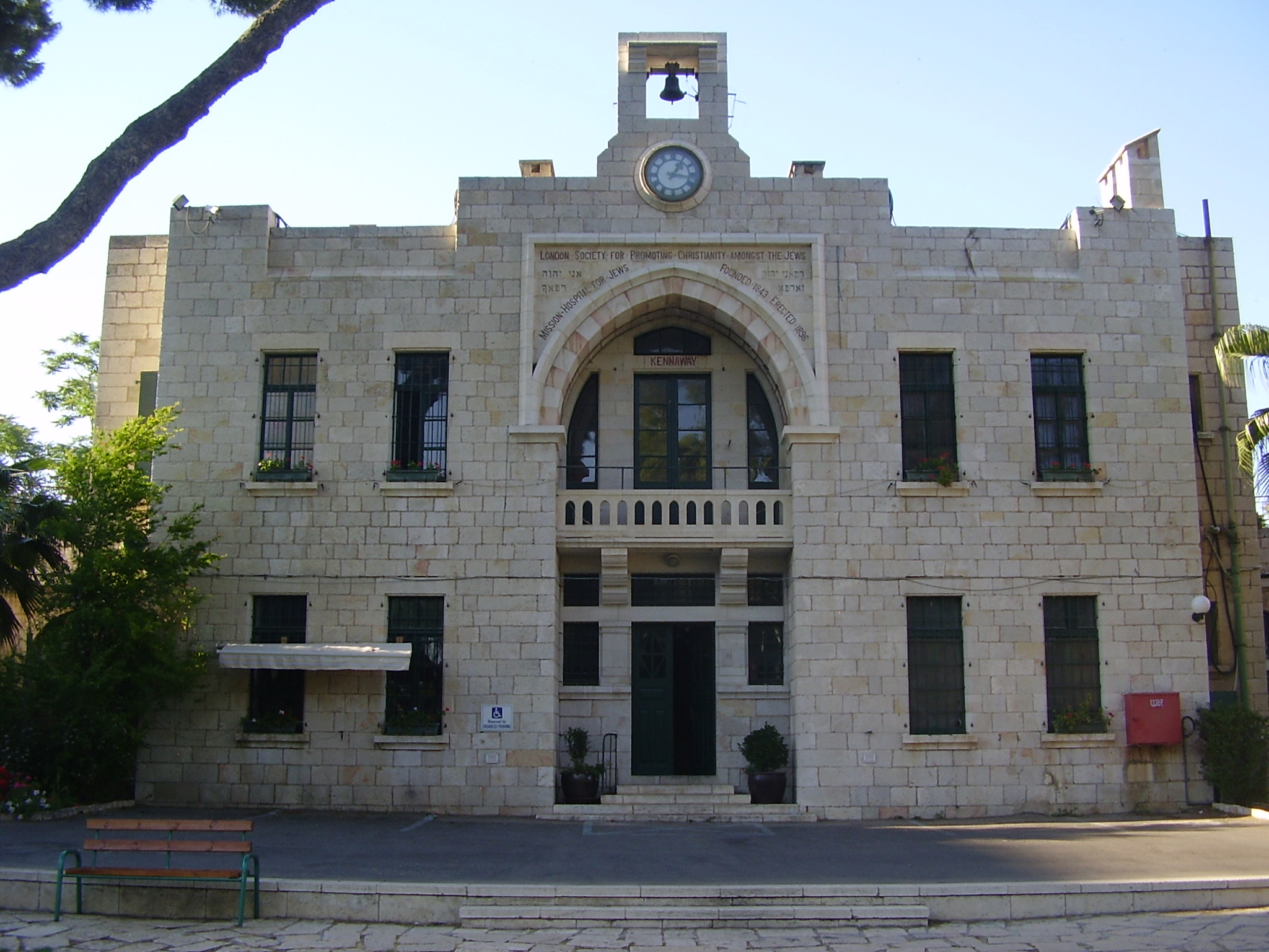 Hospital of the English mission in Jerusalem